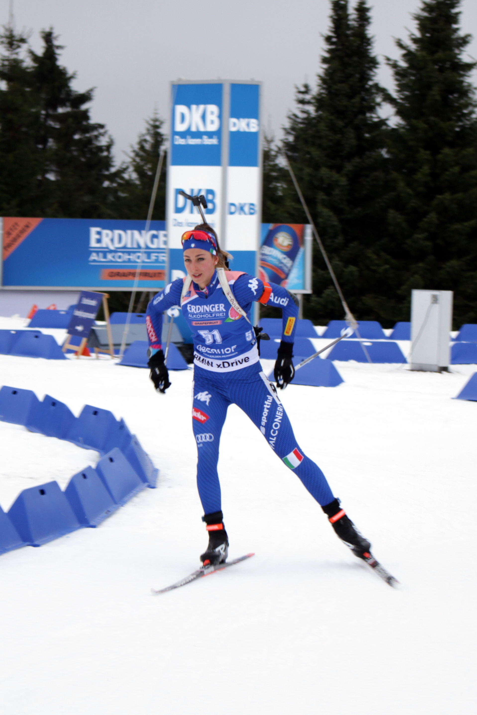 2018 Oberhof Biathlon World Cup - Pursuit Women